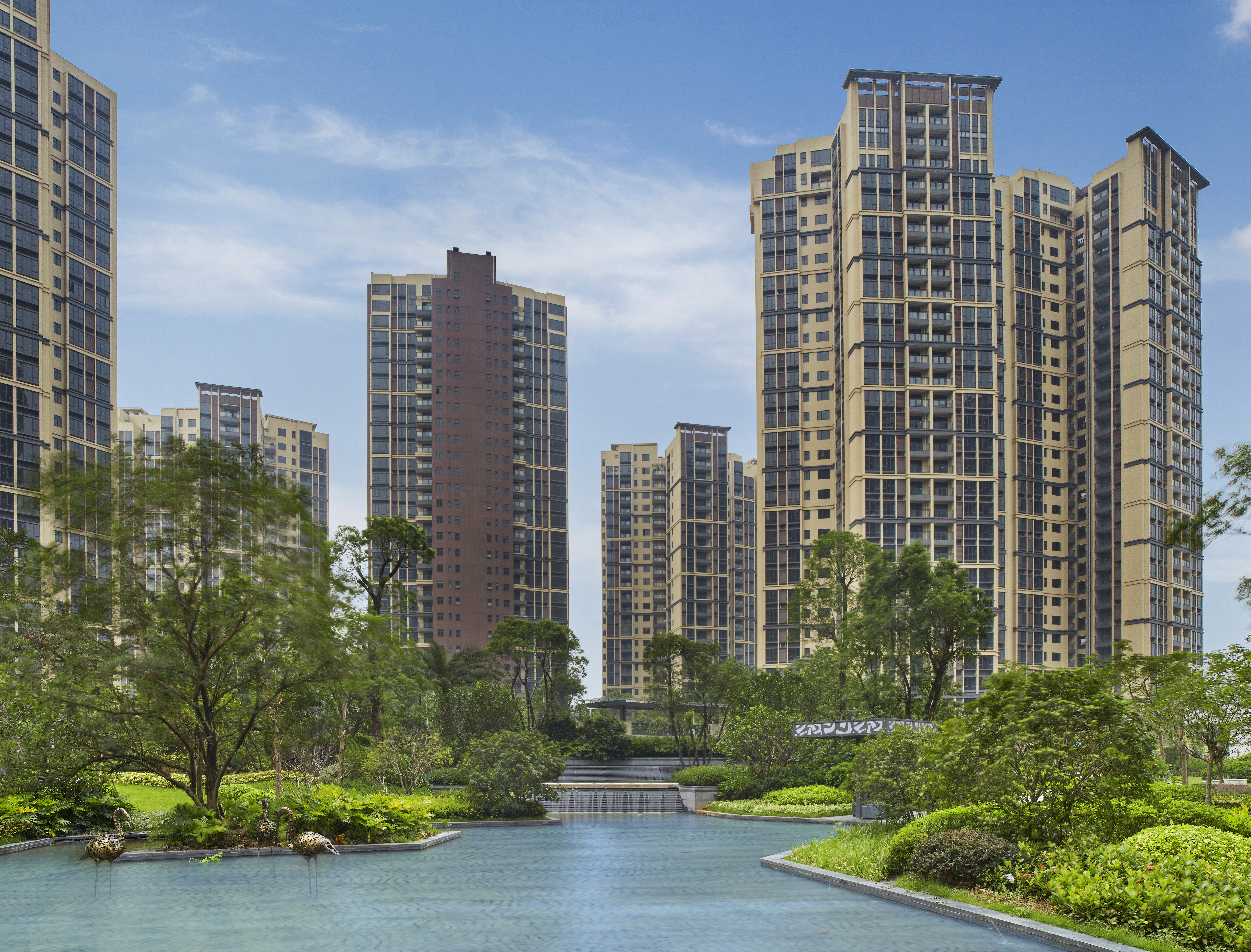 Silver Cove 星際灣